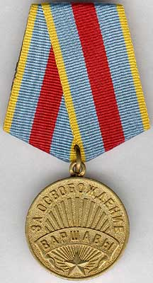 Soviet Medal For the Liberation of Warsaw